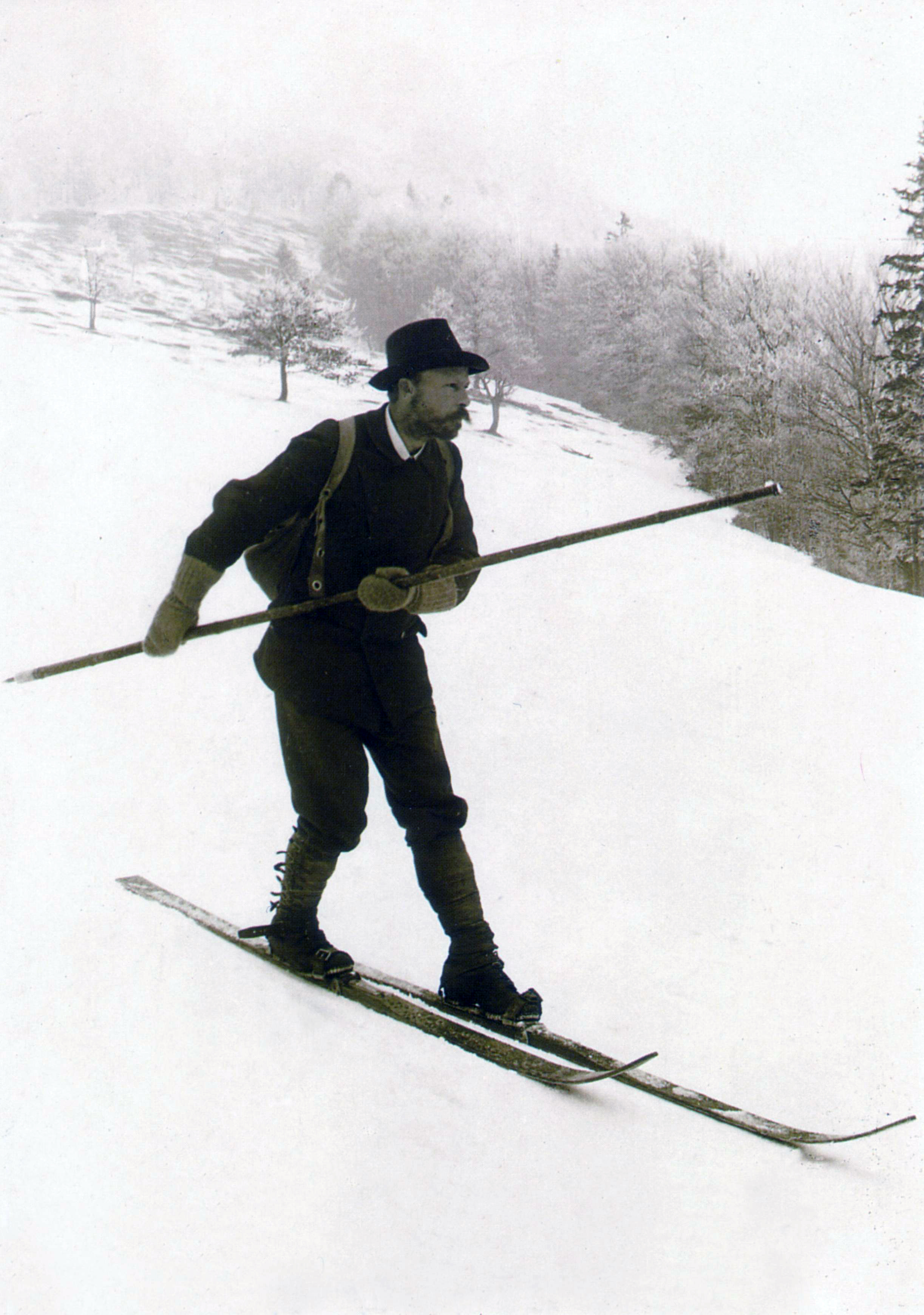 Photograph of Mathias Zdarsky demonstrating his new skiing technique c. 1905; this photo was the basis of a commemorative Austrian five schilling postage stamp issued in 1990